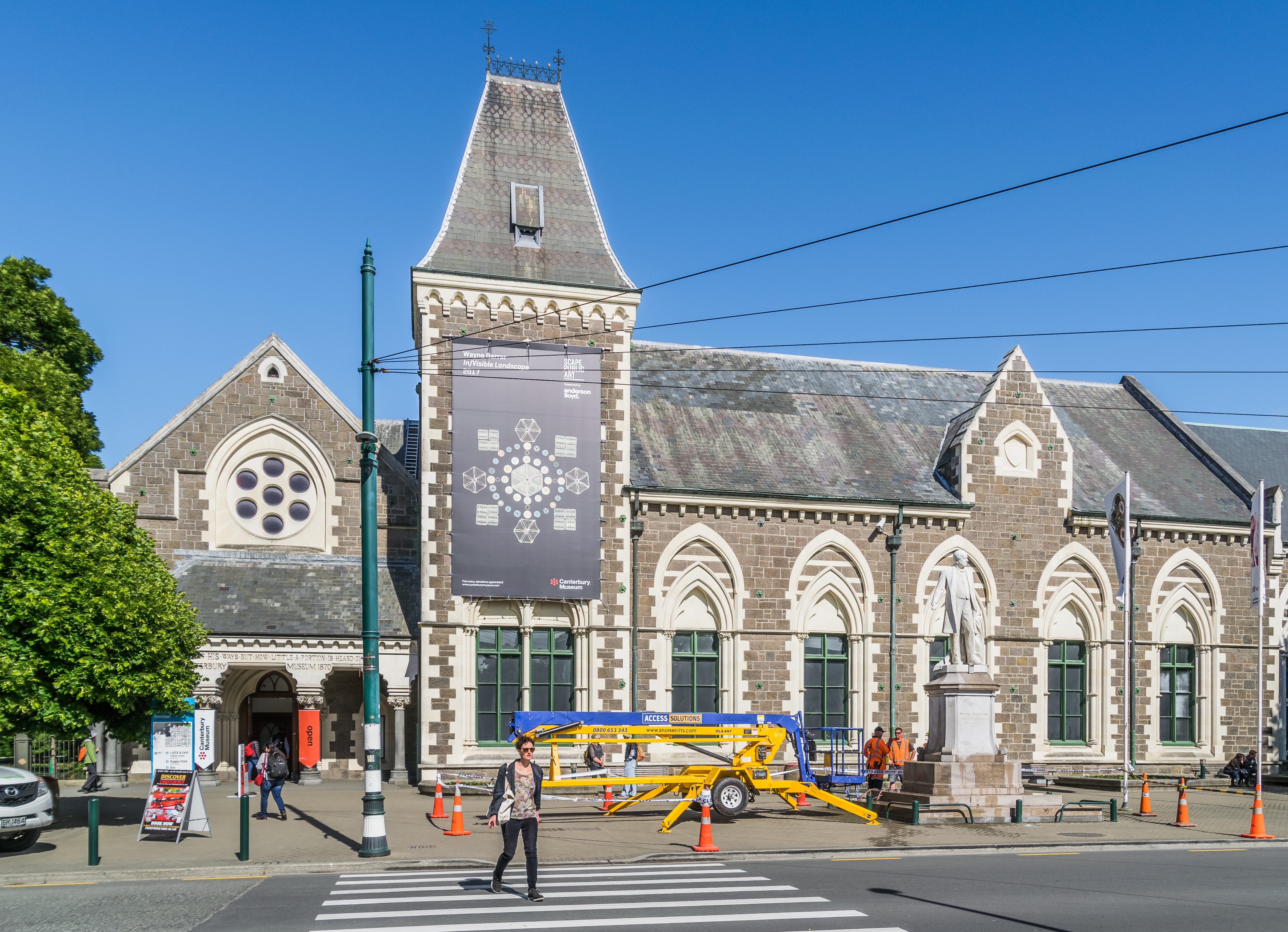 Canterbury Museum in Christchurch, Canterbury Region, New Zealand